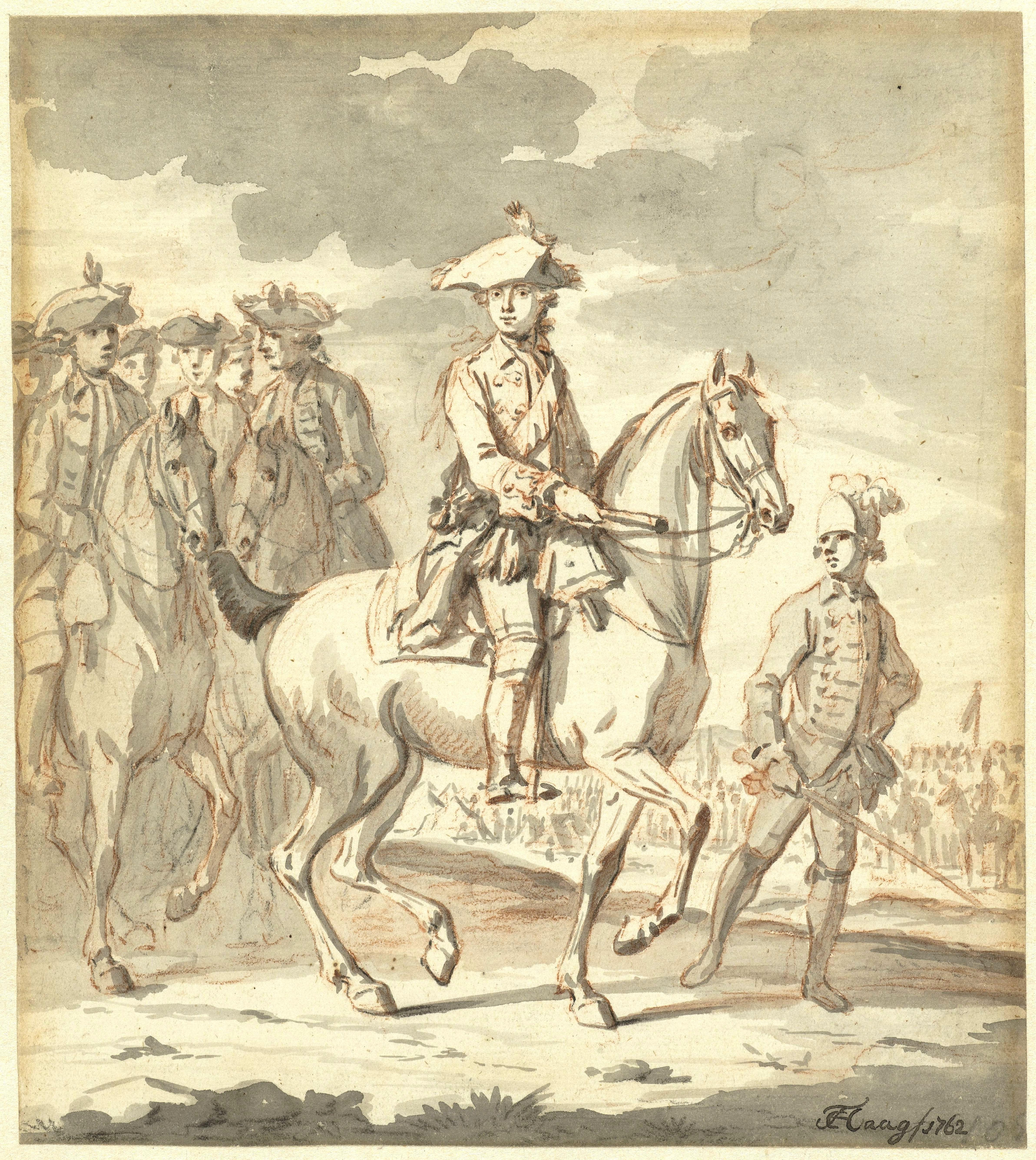 The young Prince William V of Orange-Nassau on horseback, with company. Red chalk, brush in gray.